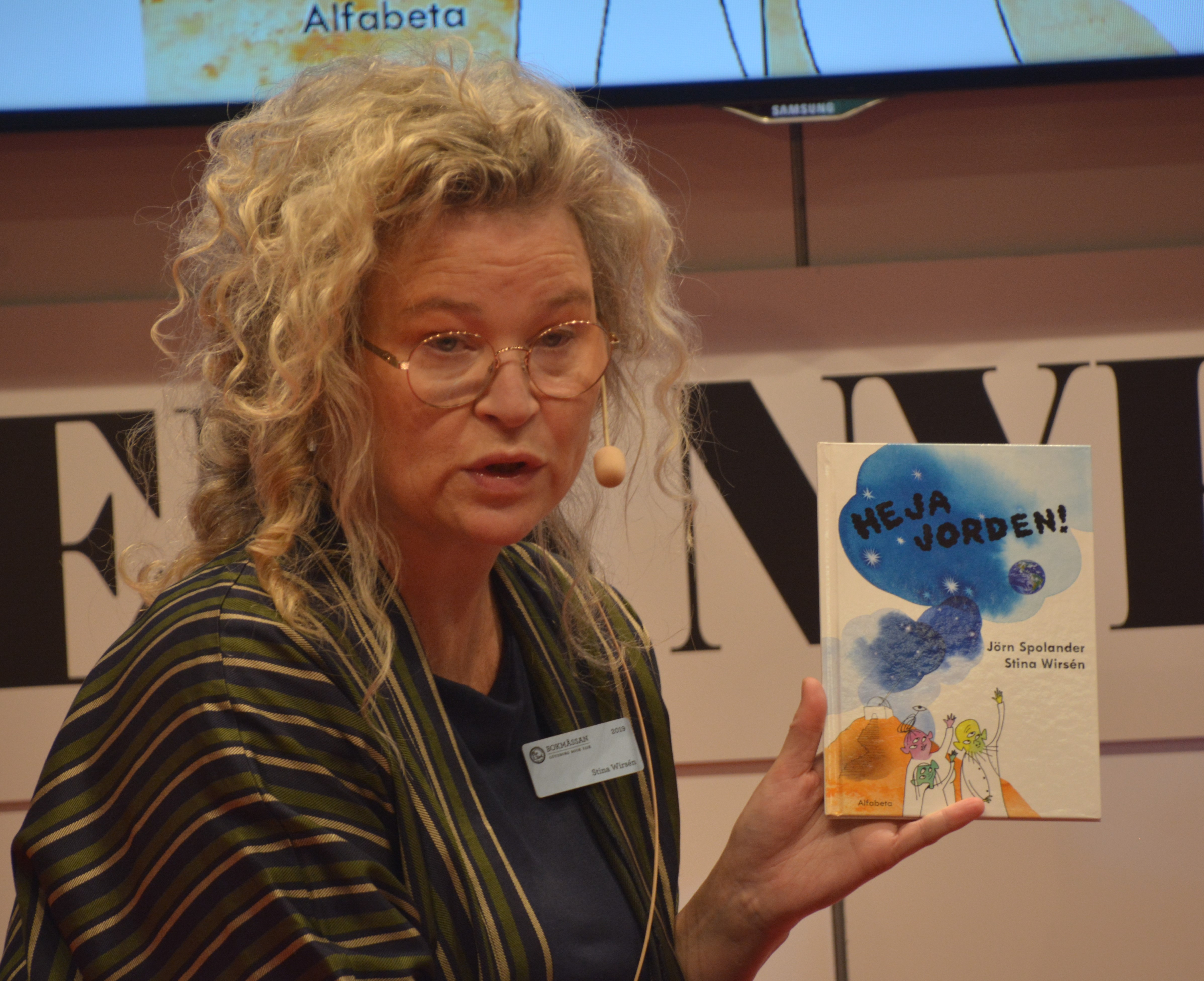 Stina Wirsén at Göteborg Book Fair 2019